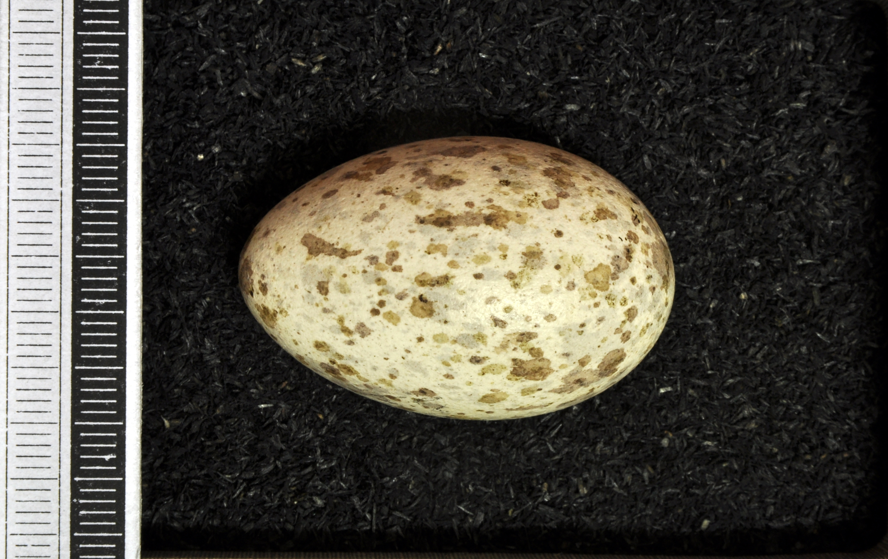 Alpine chough Pyrrhocorax graculus , egg, Coll. Museum Wiesbaden